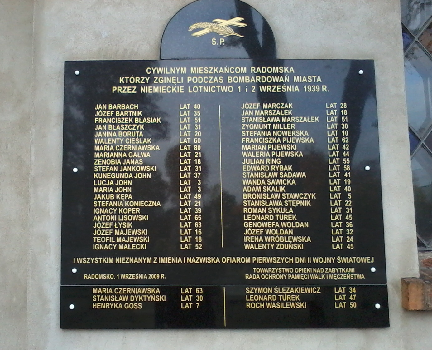 German Crimes during World War II - Radomsko 1-2.09.1939